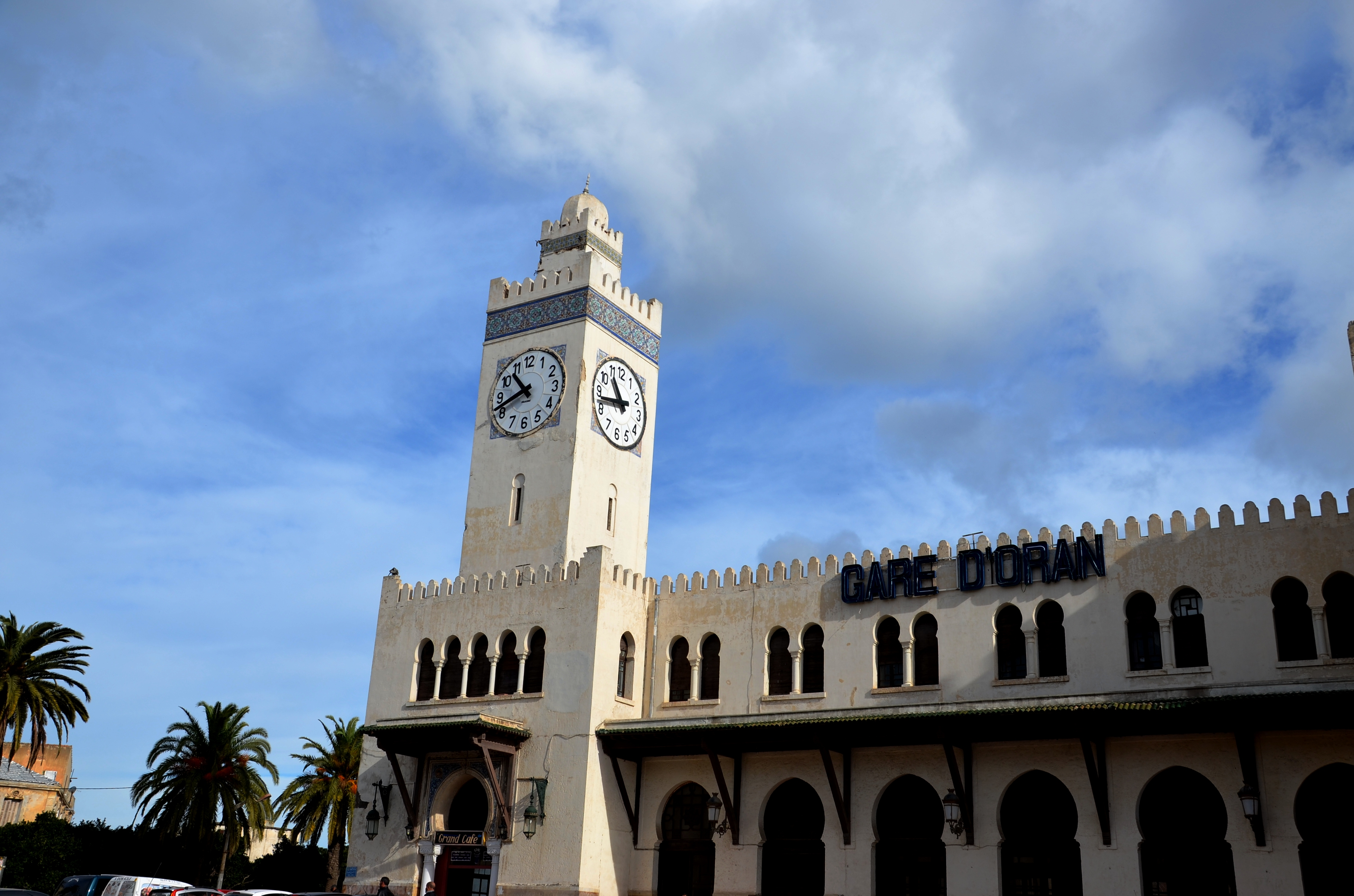 This is an image with the theme "Africa on the Move or Transport" from: Algeria